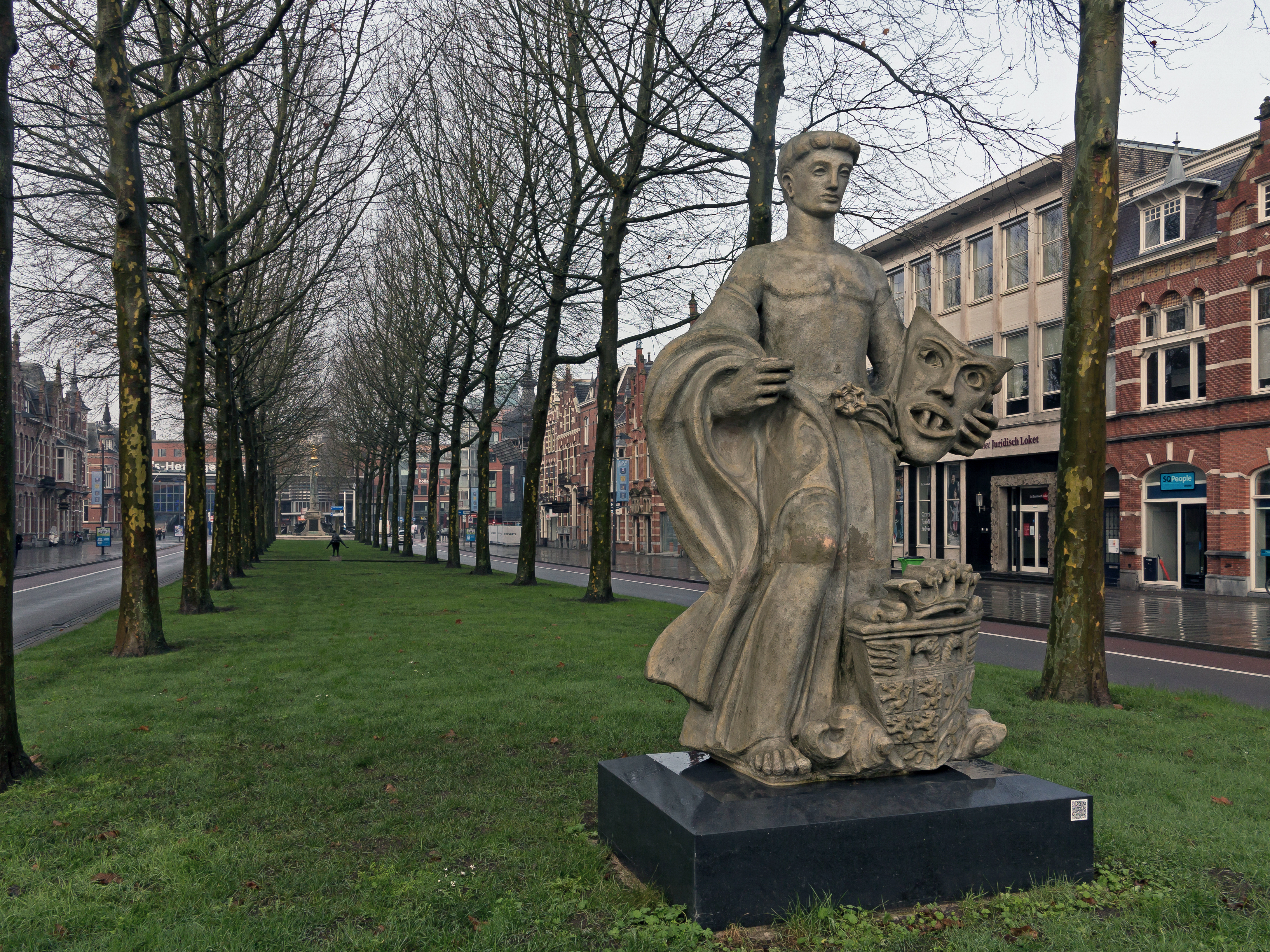 ´s-Hertogenbosch, sculpture Carnaval at the Stationsweg near the bridge